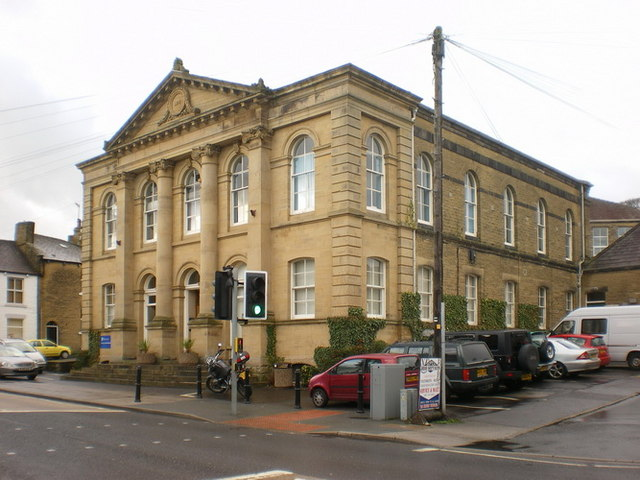 Local Education Office, Water Street, Skipton, North Yorkshire (formerly West Riding)